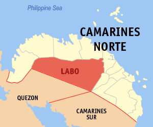 Map of Camarines Norte showing the location of Labo